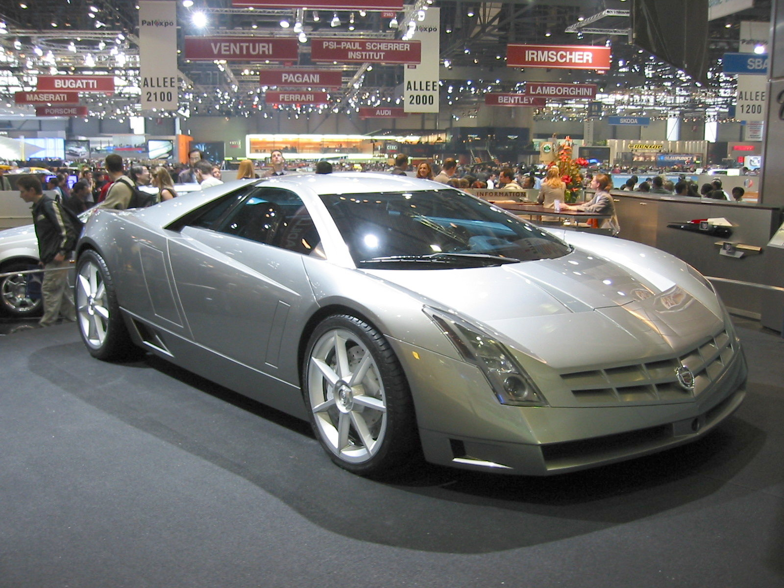 Cadillac Cien concept at the Geneva Motor Show 2002